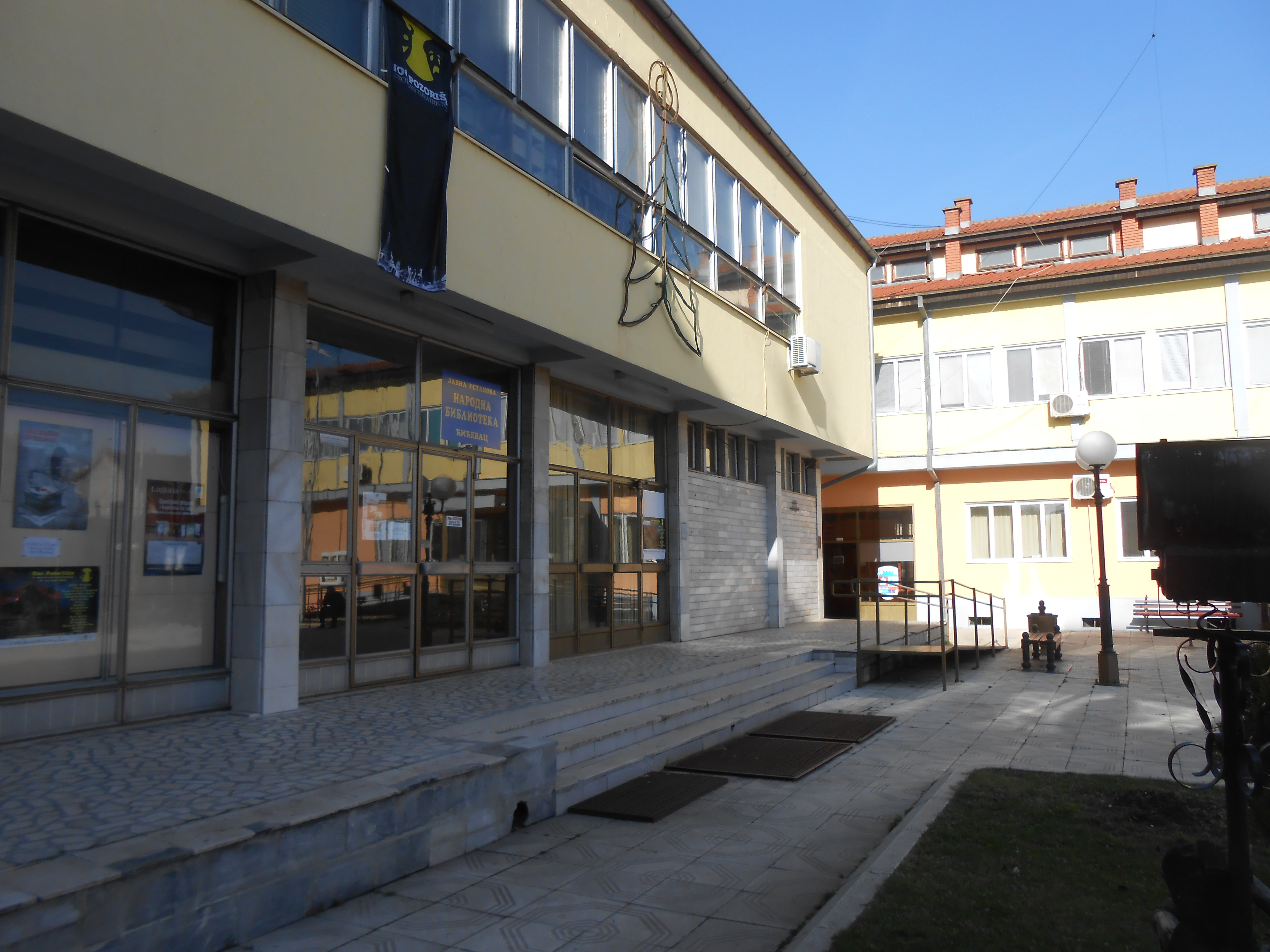 У овој згради се одржавају позоришне представе и ту је седиште Аматерског позоришта Ћићевац